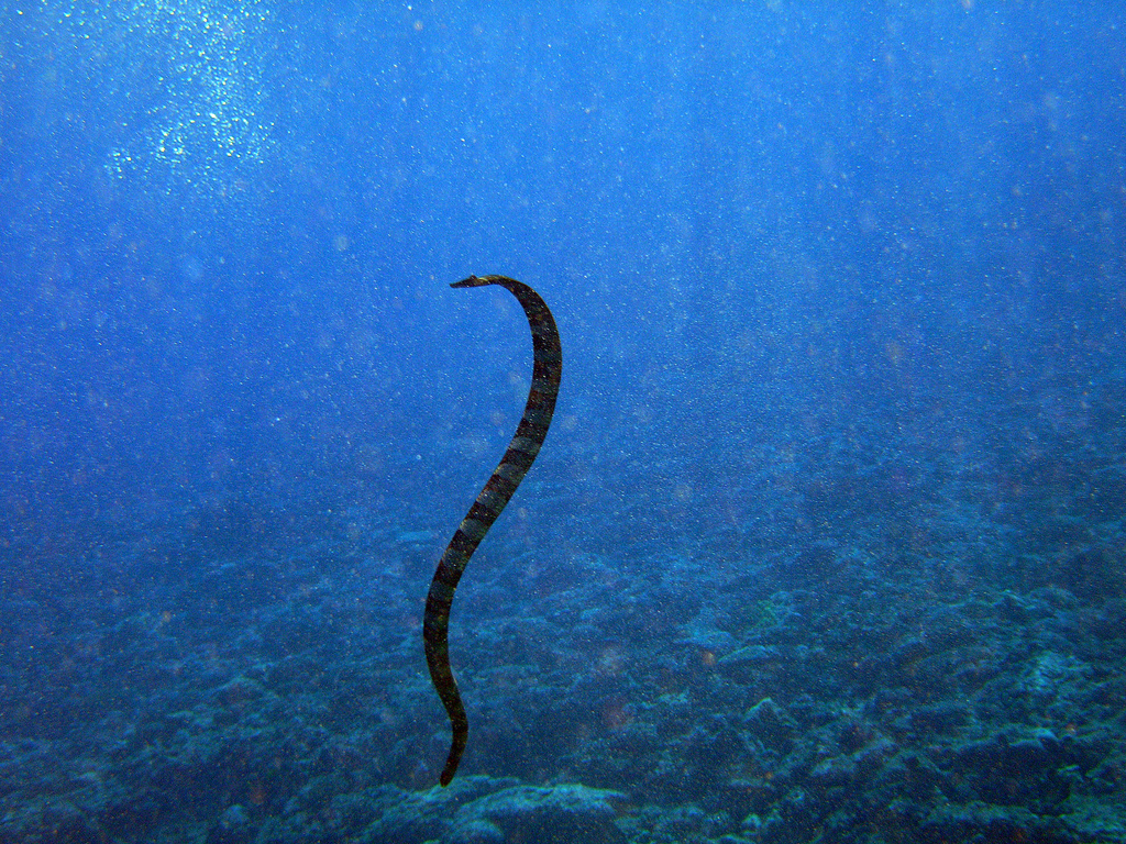 Katuali (Laticauda schystorhyncha) sea snake in Niue